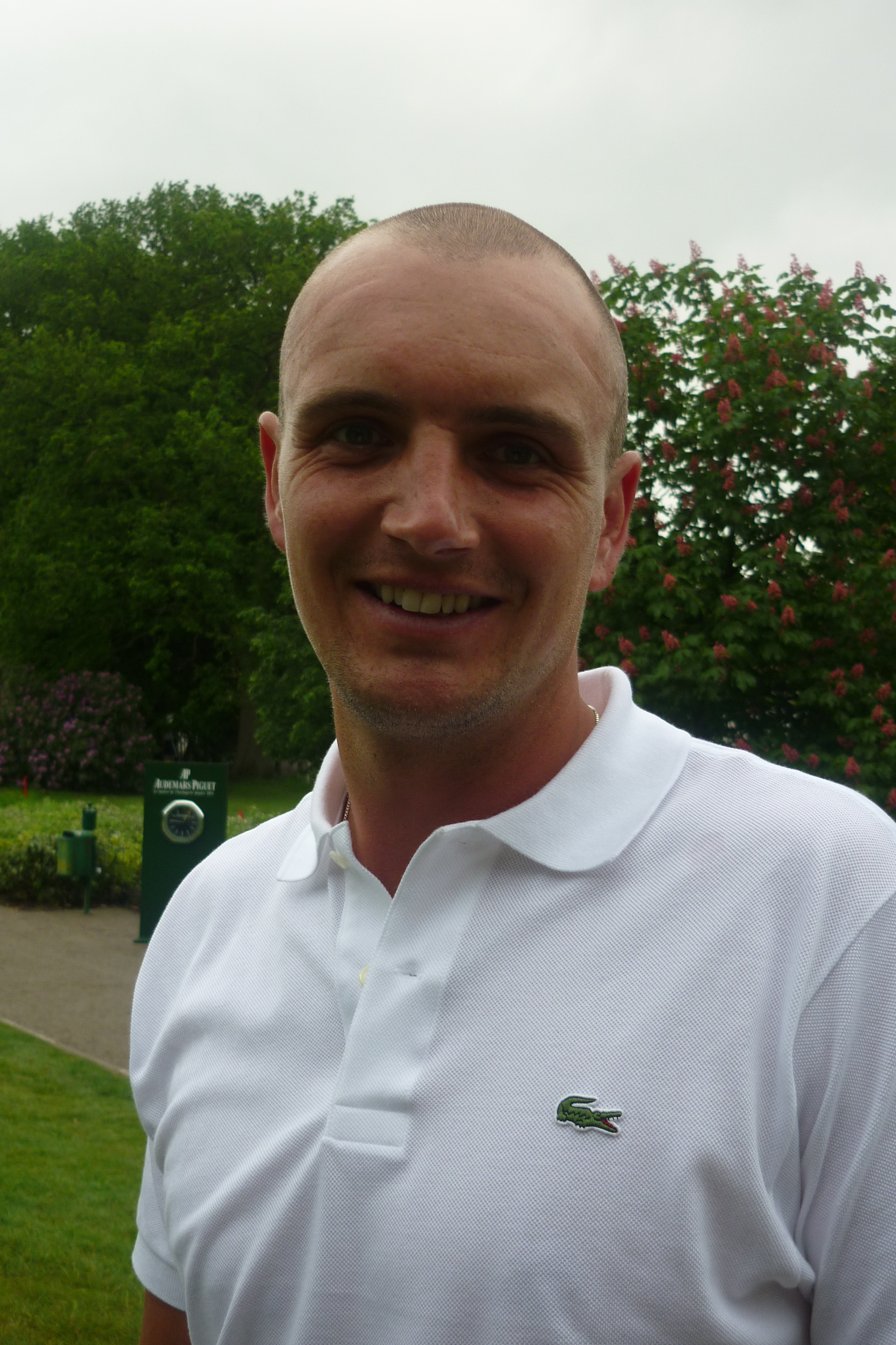 Robert Dinwiddie at Telenet Trophy at Rinkven GC